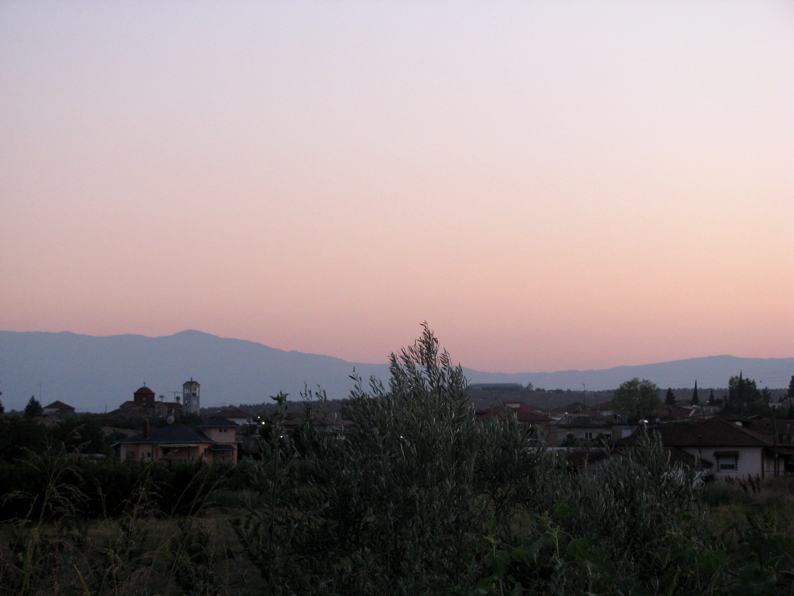 village of Mandalevo or Mandalo, Pella prefecture, Greece